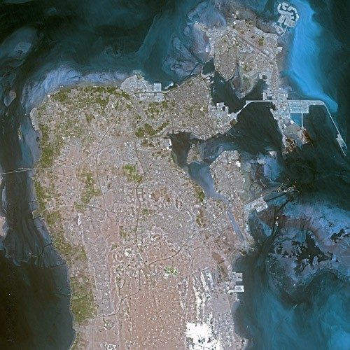 Manama by SPOT Satellite